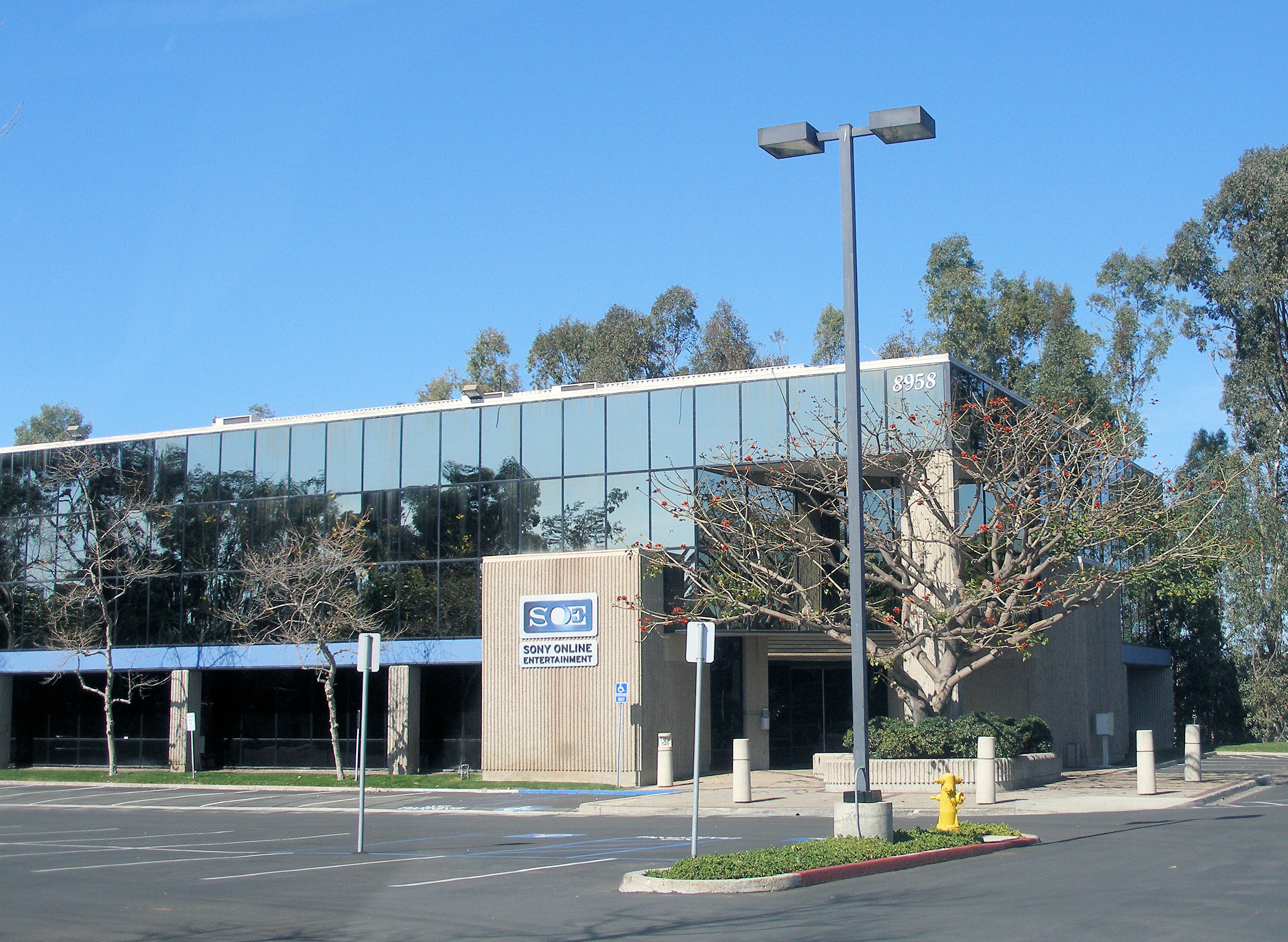 The headquarters of Sony Online Entertainment in San Diego. Photographed by user Coolcaesar on February 17, 2008.